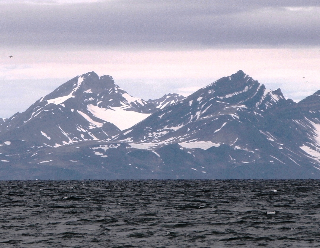 Image of mountains from the northern parts of Isfjorden - central Spitsbergen. This is the southeastern part of James I Land.